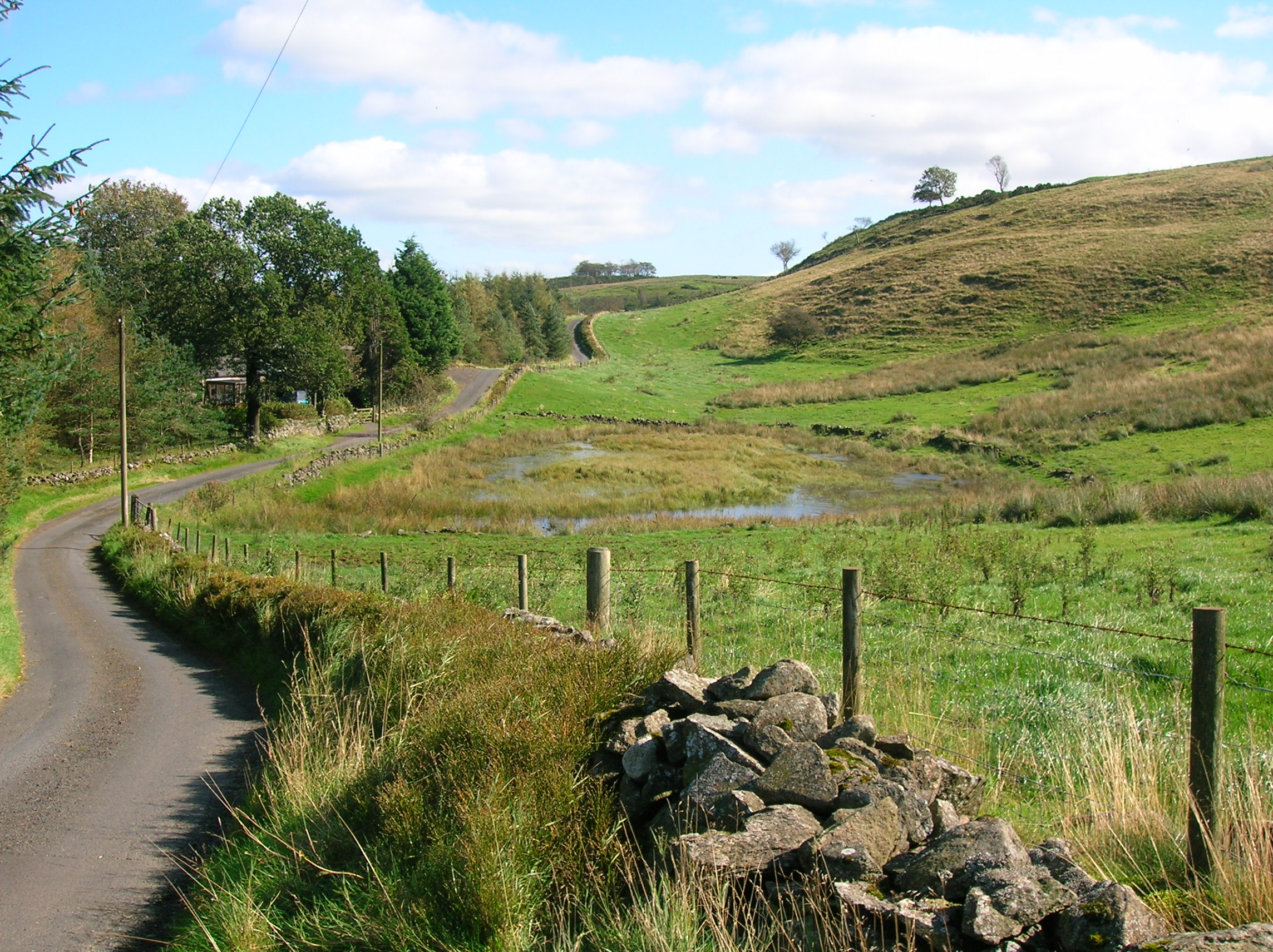 Lows Lochan, an old retting pond, Threepwood Road, Beith, North Ayrshire, Scotland